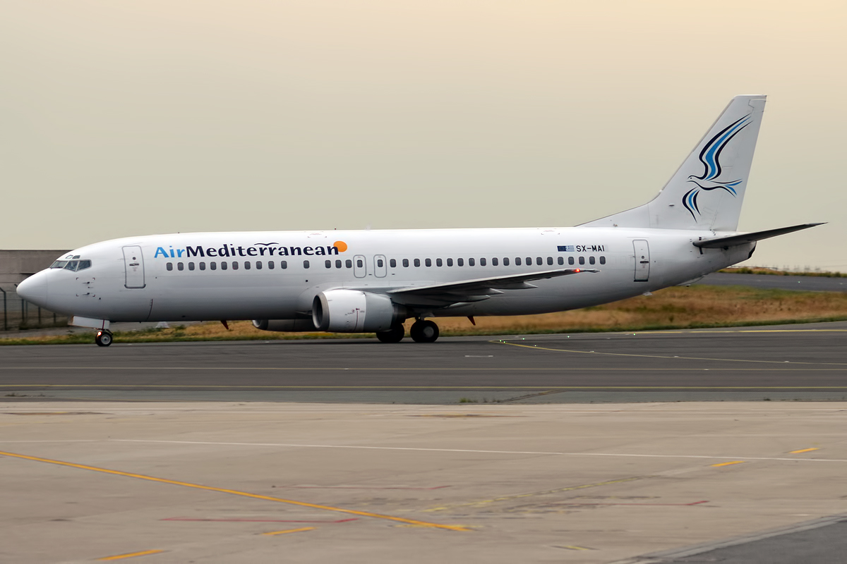 Air Mediterranean, SX-MAI, Boeing 737-4K5